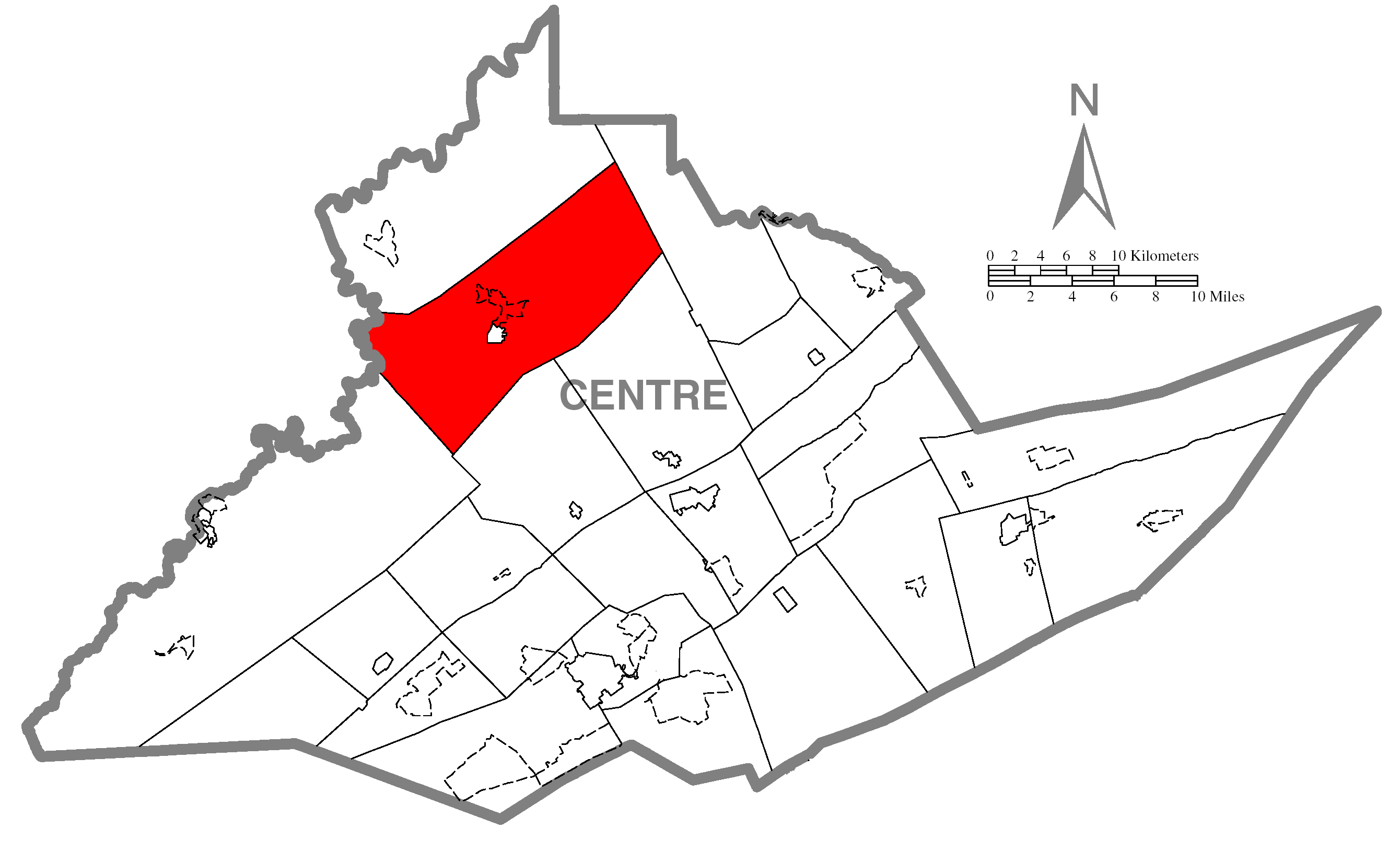 A map of Centre County showing Snow Shoe Township, Pennsylvania (alternate) highlighted on the map.